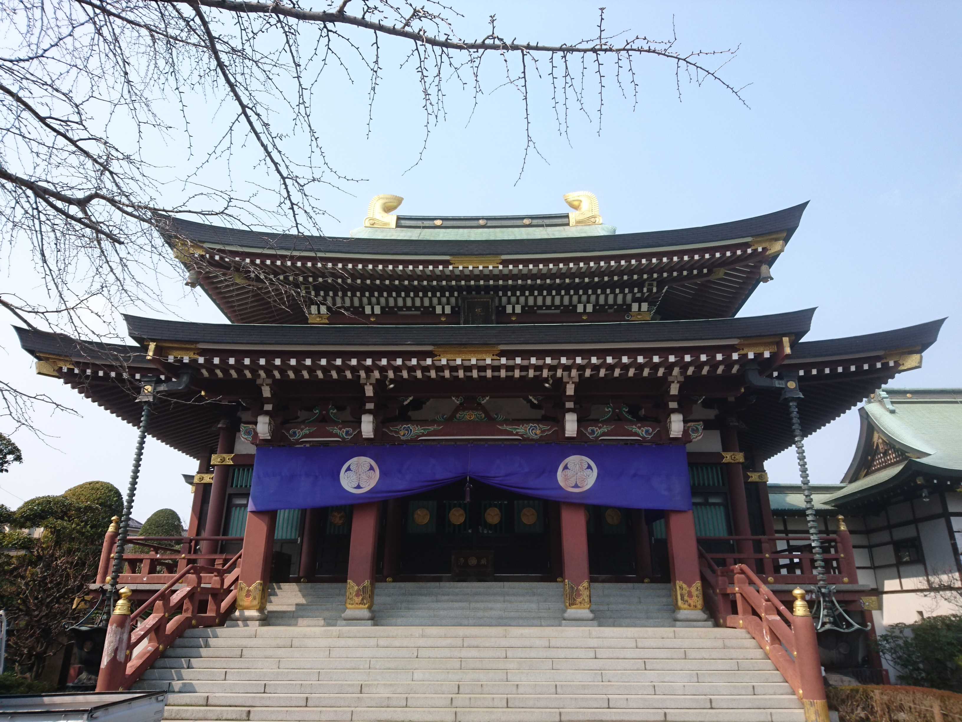 Main hall of Jyōren-ji temple in Itabashi, Tokyo